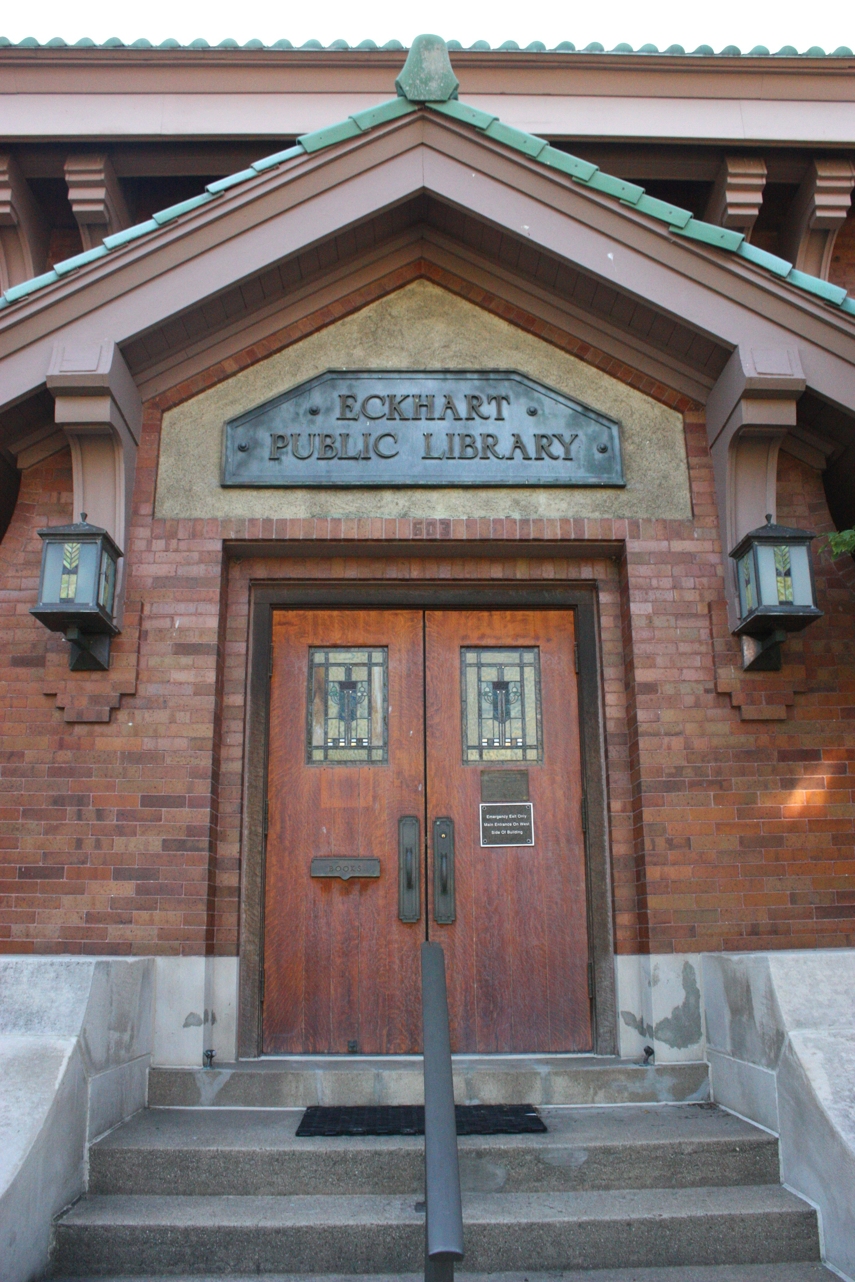 The east side of the Eckhart Public Library, Auburn, Indiana. This was the original entraceway for the library.